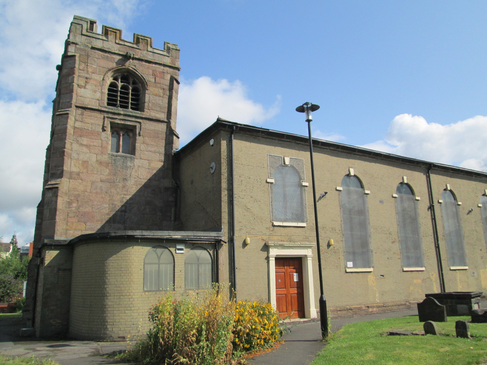 St John's Church, in Burslem, Stoke-on-Trent, viewed from the south-west.